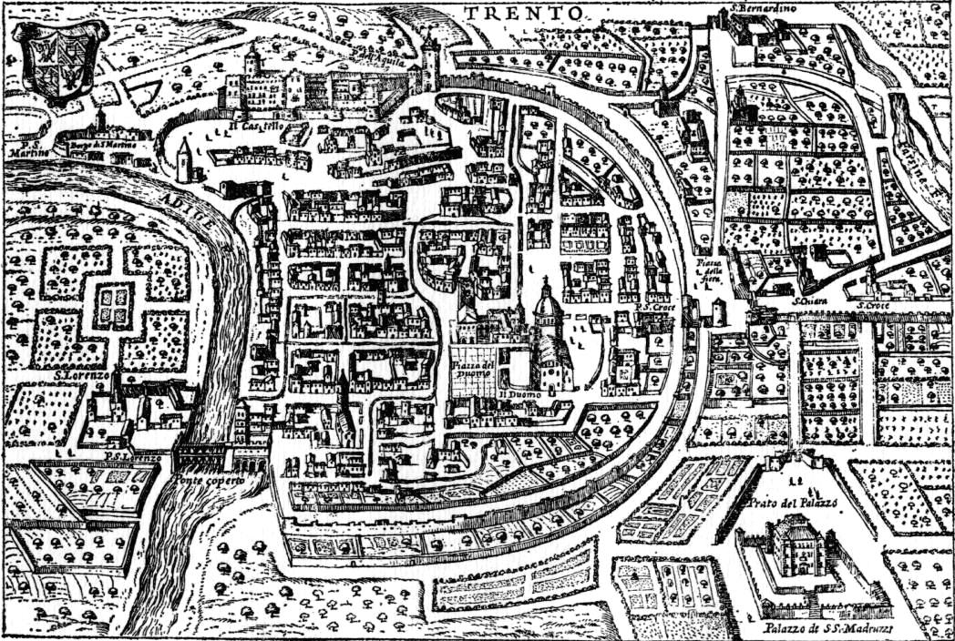 18th century Trento woodcut